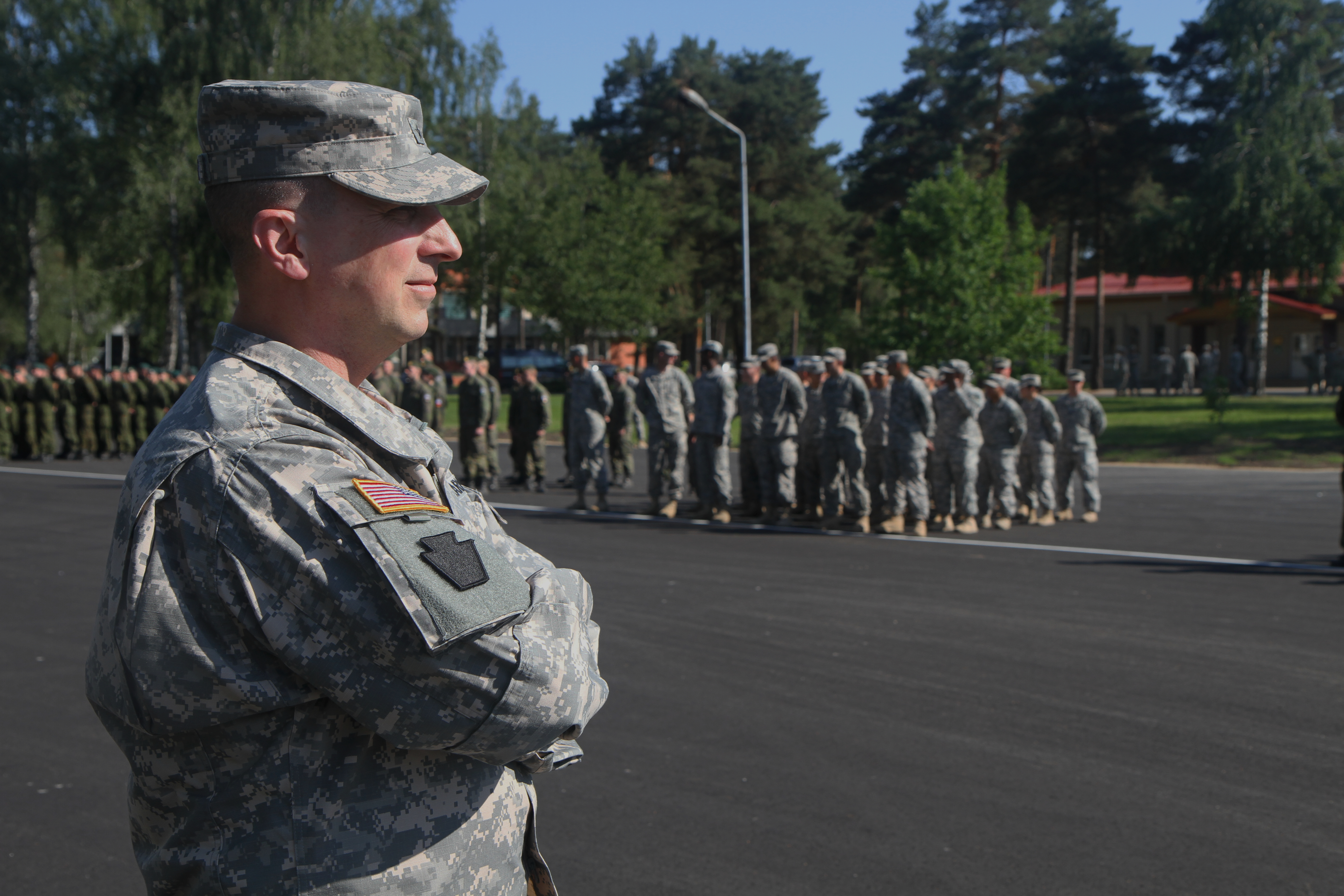 ADAZI, Latvia - Assistant Adjutant General Army Pennsylvania National Guard, Brig. Gen. George M. Schwartz supervises the preparation for the Saber Strike opening ceremony, June 9, 2014. Soldiers and Airmen from nine nations gathered on the parade field to mark the beginning of this multinational security exercise. (U.S. Army National Guard photo by Capt. Gregory McElwain/Released)